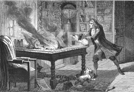 Sir Isaac Newton (1642-1727), English scientist and mathematician. Artist's engraving of apocryphal story of Newton's pet dog knocking over a candle and setting fire to his papers. Sir Isaac Newton had on his table a pile of papers upon which were written calculations that had taken him twenty years to make. One evening, he left the room for a few minutes, and when he came back he found that his little dog "Diamond" had overturned a candle and set fire to the precious papers, of which nothing was left but a heap of ashes. It was then that he cried, "Oh, Diamond! Diamond! thou little knowest what mischief thou hast done!" Story published in The Life of Sir Isaac Newton By David Brewster (1833) and later in St. Nicholas magazine, Vol. 5, No. 4, (February 1878)